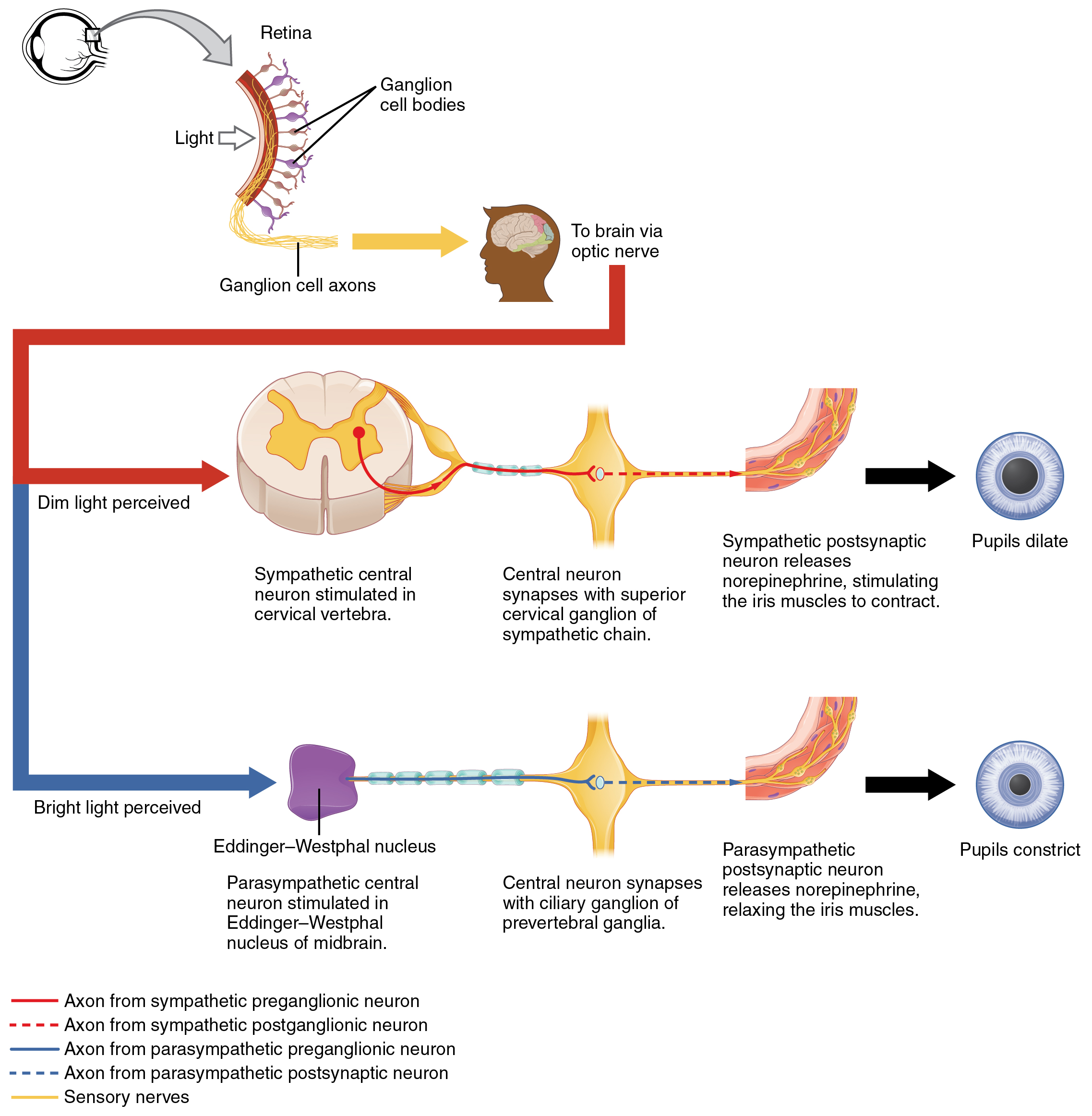 Illustration from Anatomy & Physiology, Connexions Web site. Jun 19, 2013.